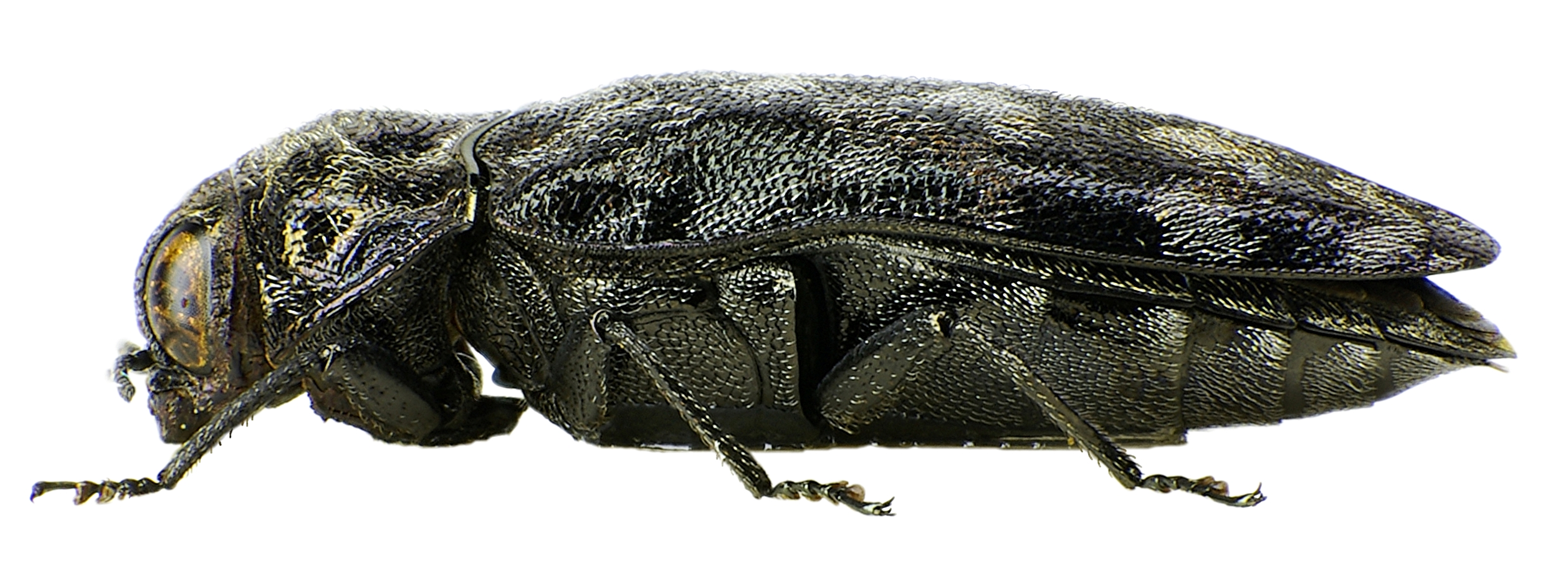 Coraebus rubi from Eastern Hungary